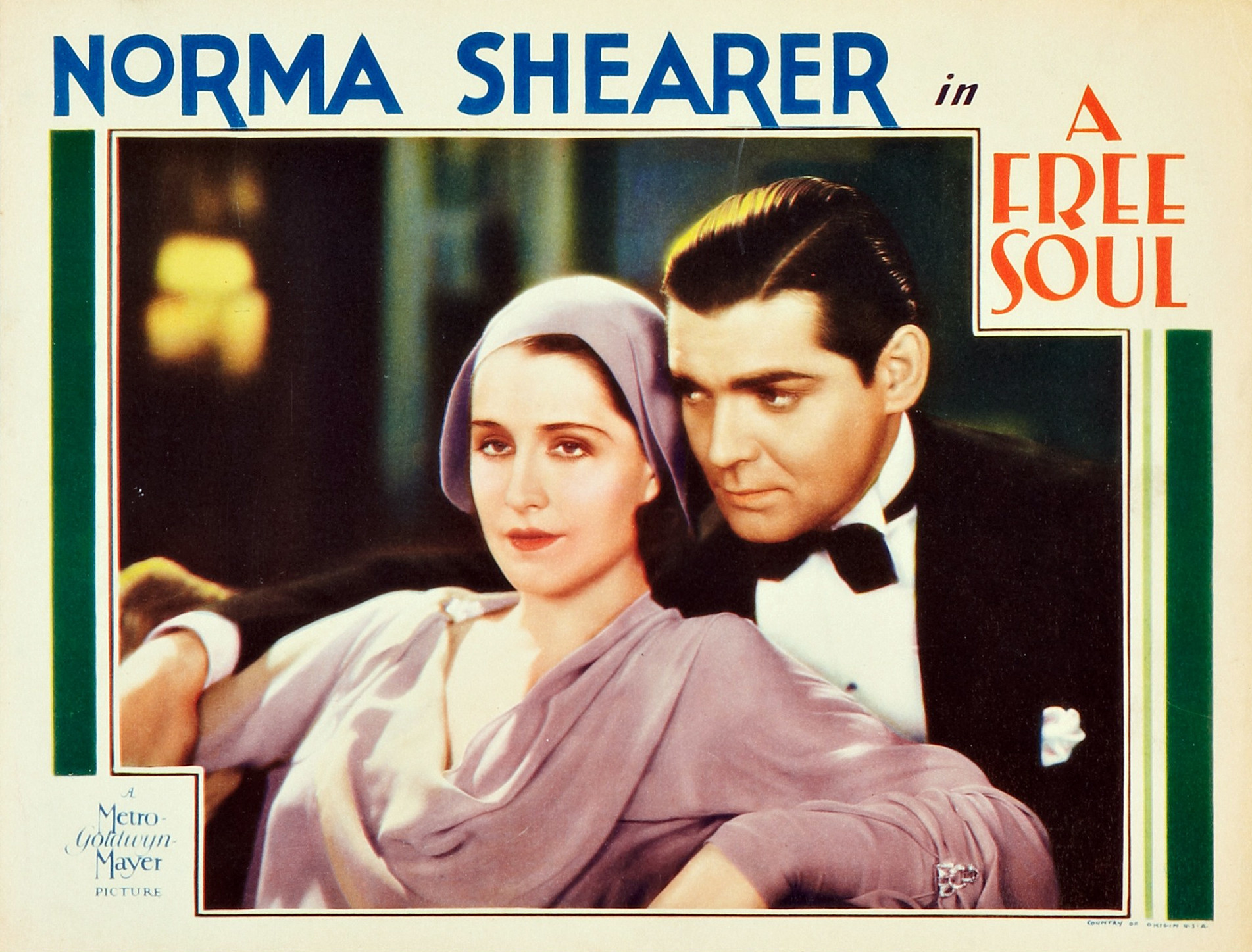 Lobby card for the American pre-Code drama film A Free Soul (1931).